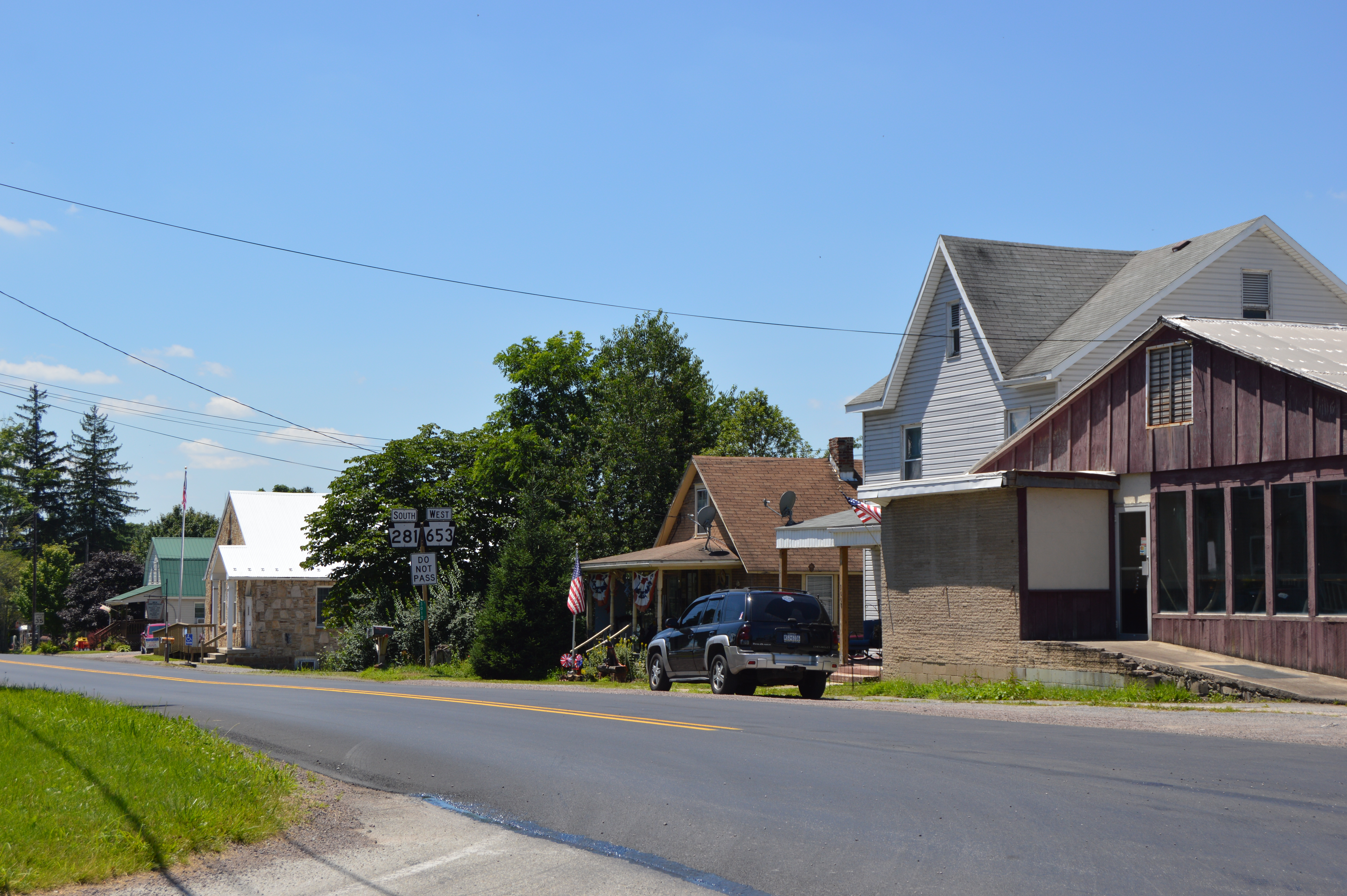 Buildings in the borough of New Centerville, Pennsylvania, United States, looking west on Kingswood Road (Pennsylvania Routes 281/653) from Bridge Street.